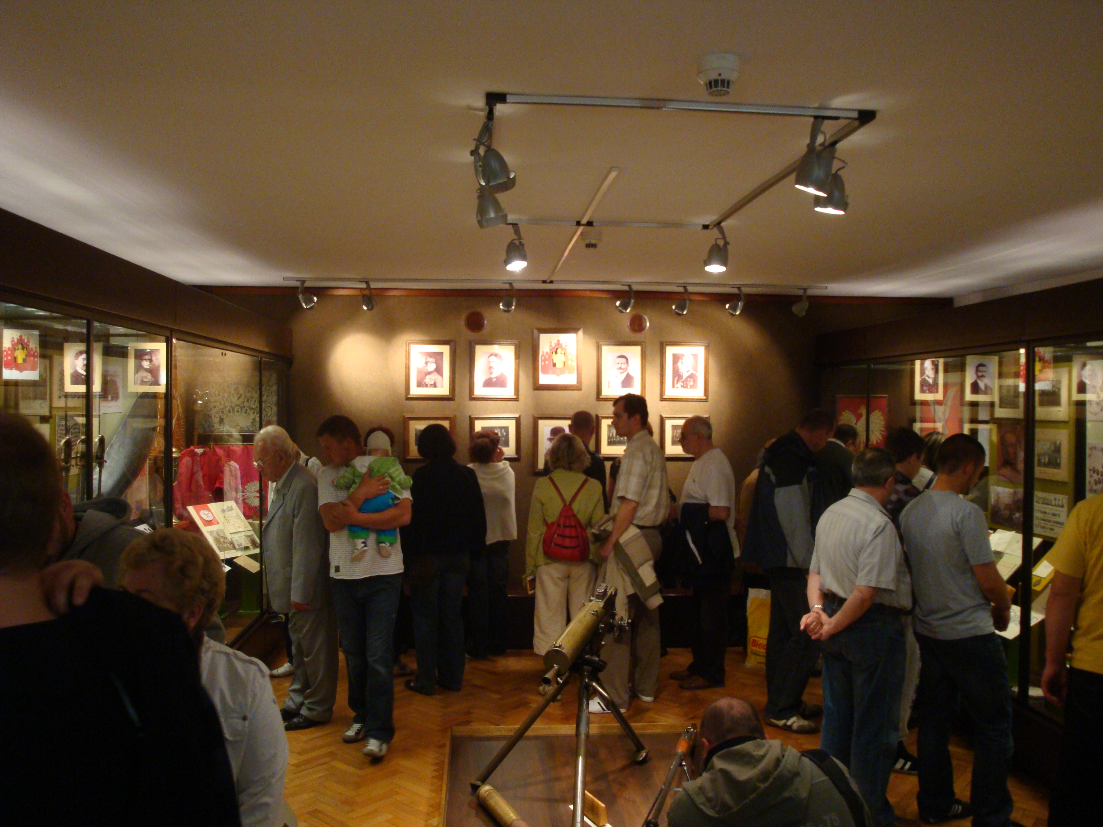 Visitors to Grudziądz Museum on Night of Muserum 2011